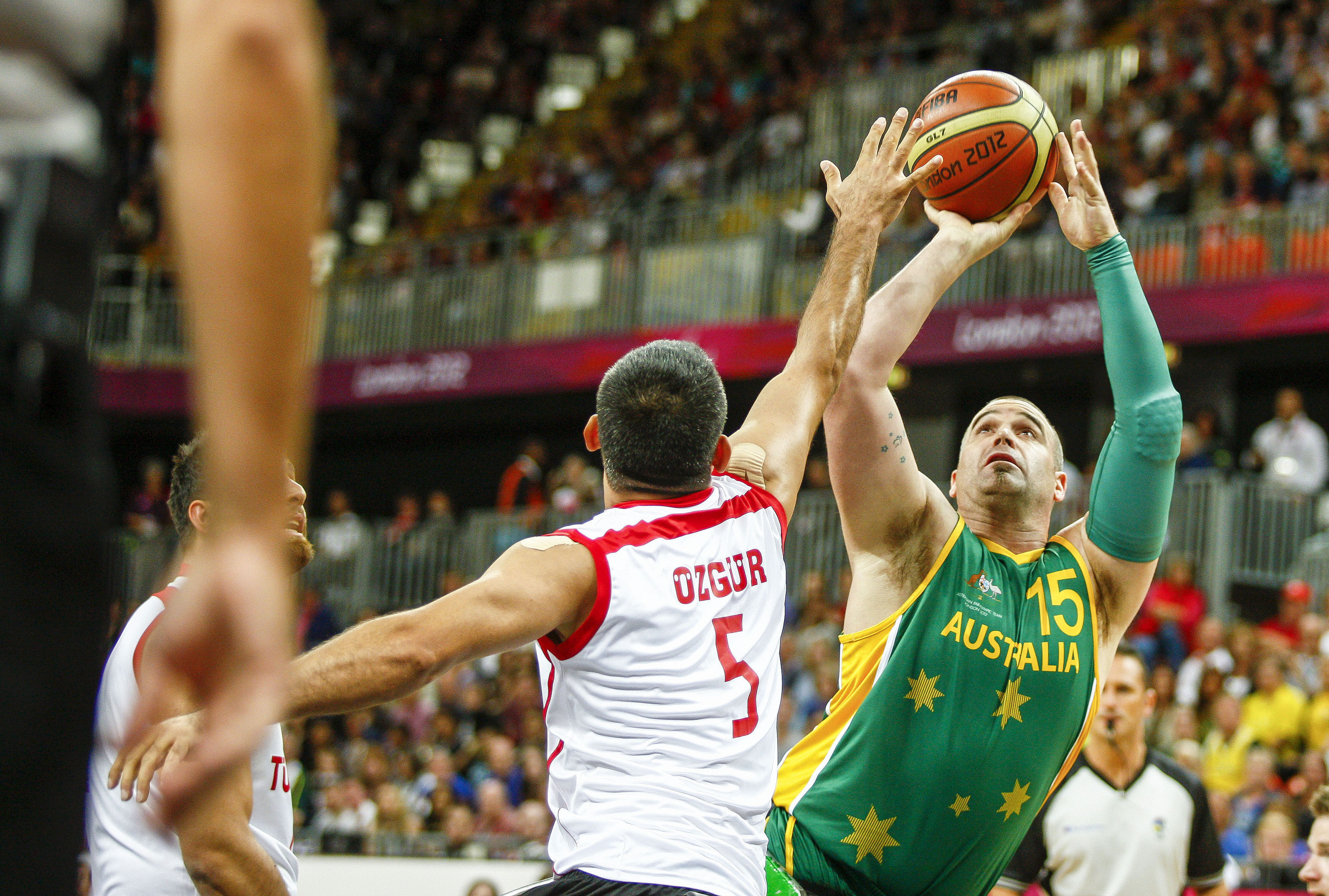 Photograph of Australian Paralympic team member Brad Ness at the 2012 Summer Paralympic Games in London